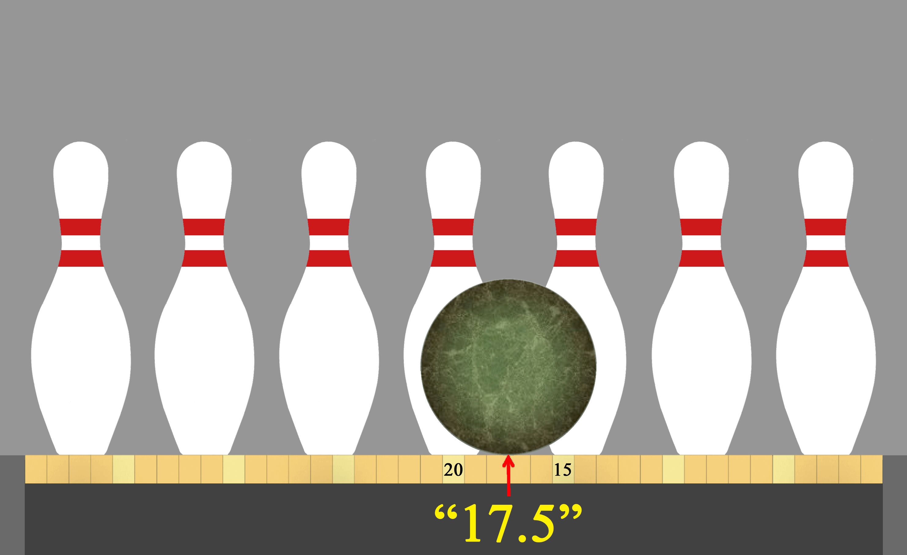 Front view of bowling pins and bowling ball in a position found optimal for achieving strikes (assumed right-handed release). Diagram is based on: Freeman, James and Hatfield, Ron (Jul 15, 2018). "10: The Pocket Isn't the Pocket... and It's Nowhere Near Where You Think It Is". Bowling Beyond the Basics: What's Really Happening on the Lanes, and What You Can Do about It. Publisher: BowlSmart. Figs. 10.5 and 10.10. Suggested cite: cite book |last1=Freeman |first1=James |last2=Hatfield |first2=Ron |title=Bowling Beyond the Basics: What's Really Happening on the Lanes, and What You Can Do about It |date=July 15, 2018 |publisher=BowlSmart |chapter=10: The Pocket Isn't the Pocket... and It's Nowhere Near Where You Think It Is (Figs. 10.5 and 10.10)